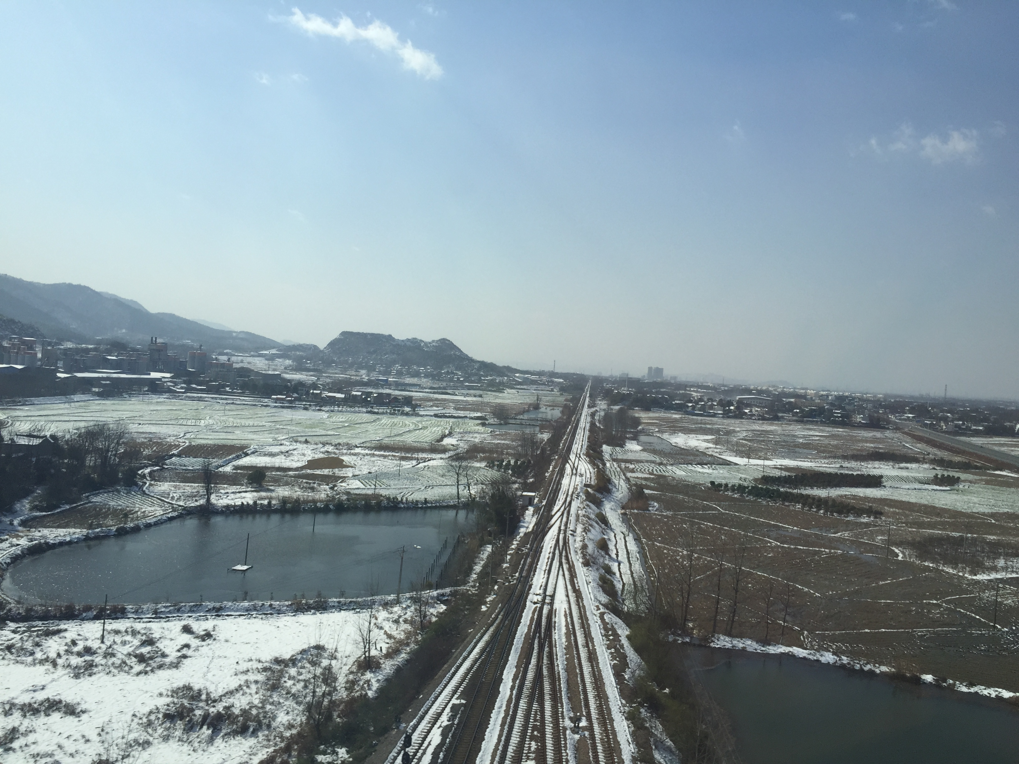 Taken from G28 Fuzhou-Beijing train.